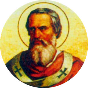 Portait of Pope Paschal I in the Basilica of Saint Paul Outside the Walls, Rome